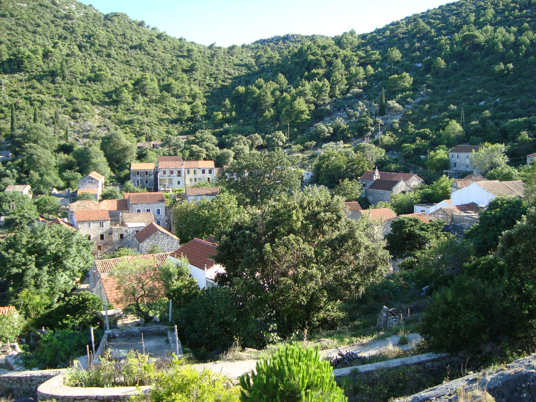 Prožura, a village on the island of Mljet, Croatia